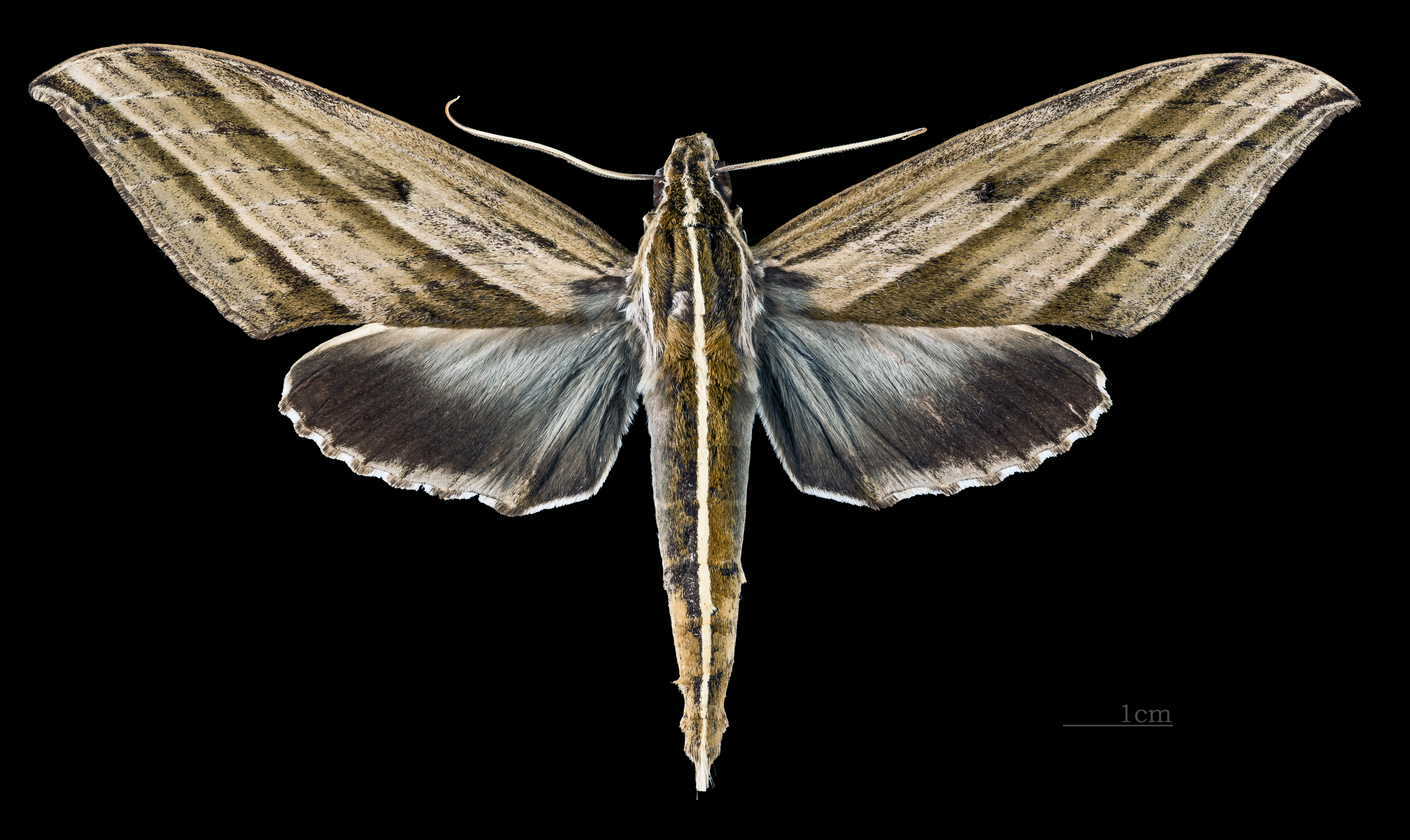 Elibia dolichus - Dorsal side. Collection of the Mathematician Laurent Schwartz.